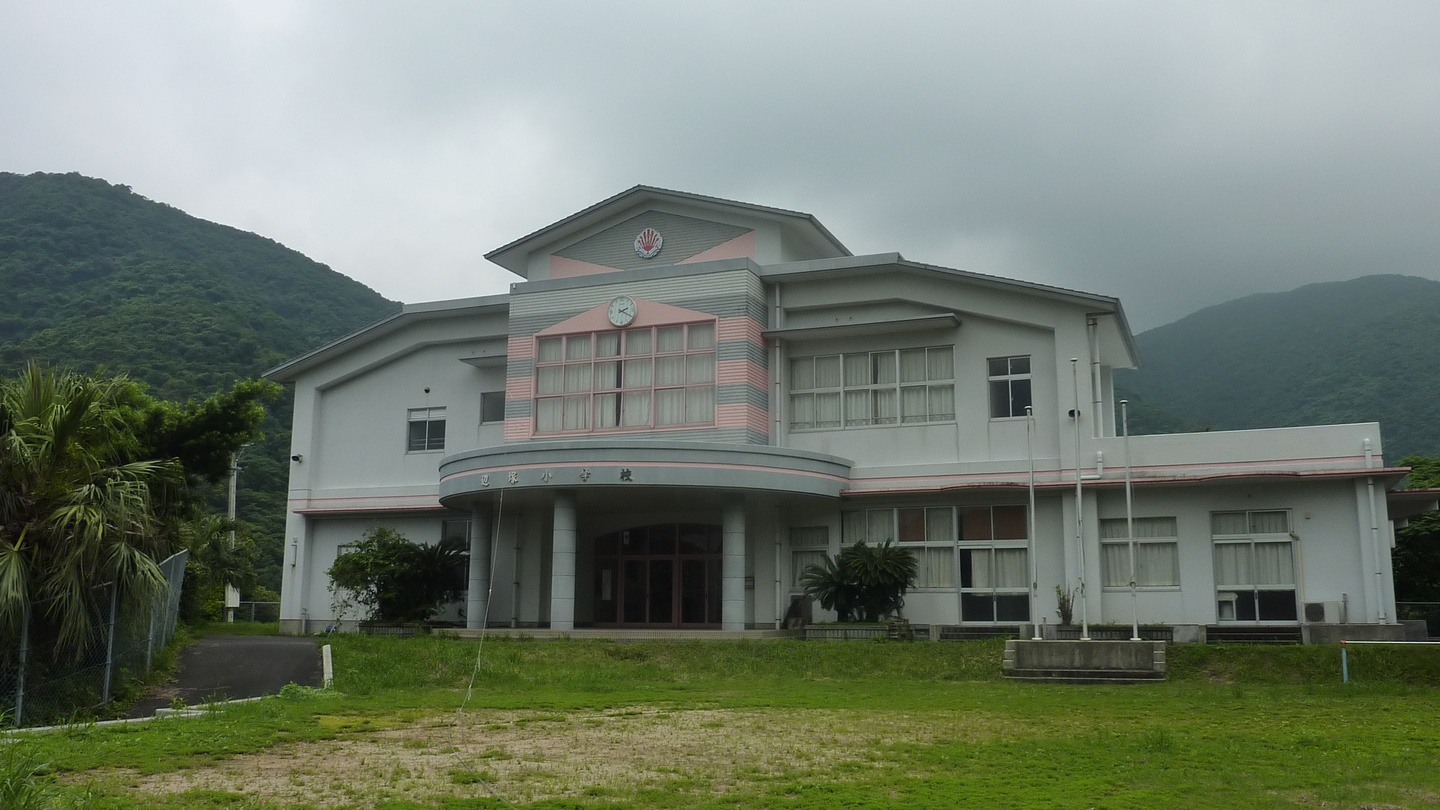 Hestuka School - closed (Minamiosumi, Kagoshima, Japan)